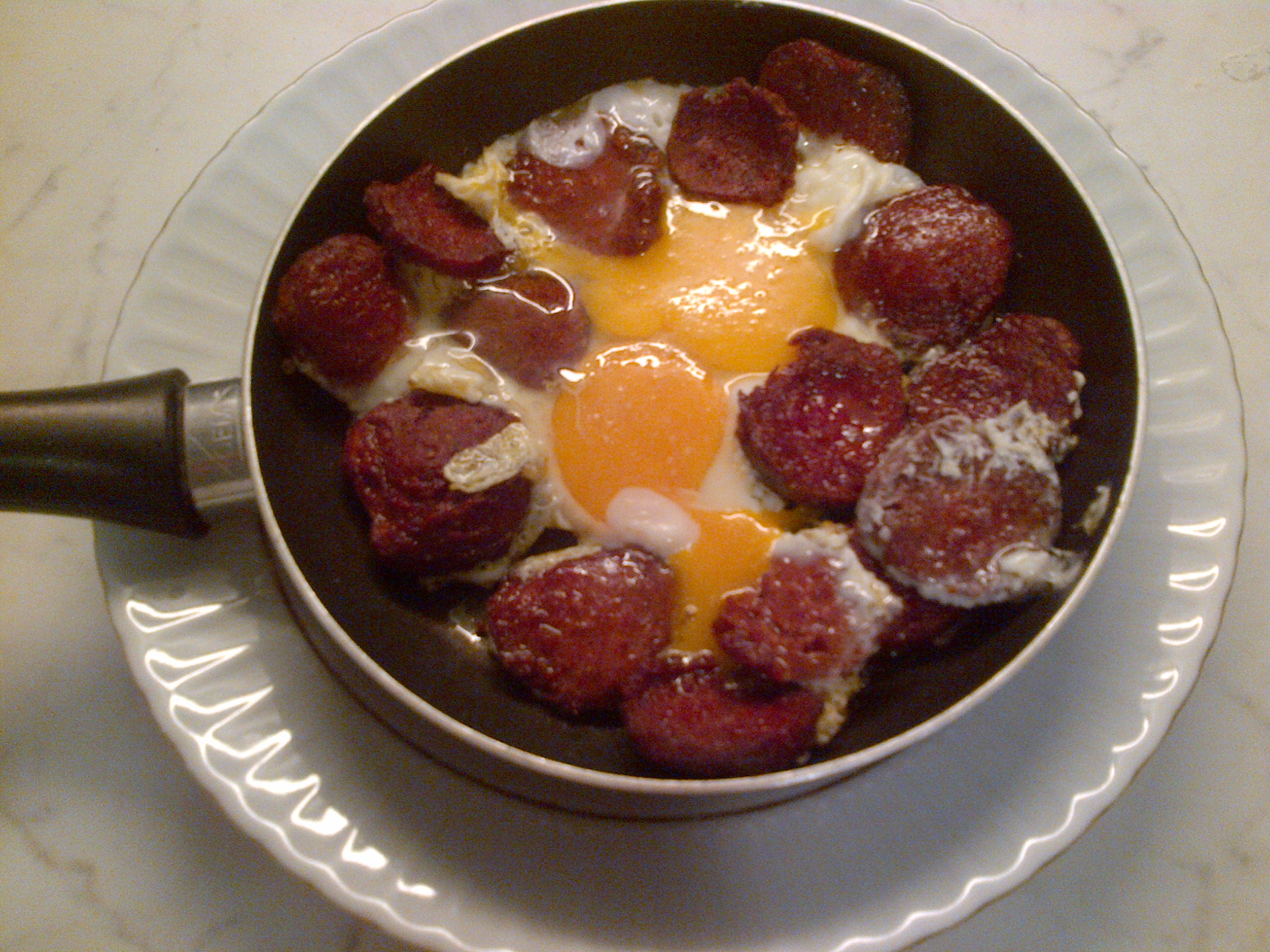 "Sucuklu yumurta" :Fried eggs and sucuk, from Tuırkey.